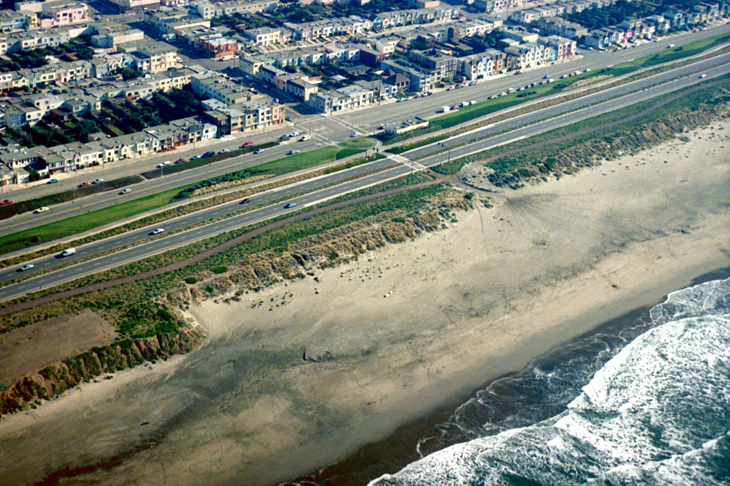 Aerial view of the Ocean Beach neighborhood on the Pacific Ocean in San Francisco, California, USA. This photograph appears to be centered on the intersection of Taraval Street and Great Highway. View is to the southeast. Coordinates: 37°44′30.1″N 122°30′24.56″W / 37.741694°N 122.5068222°W